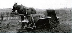 Caillet's Patented Monorail System: Tipper Wagon